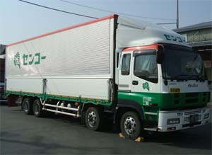 SENKO's truck